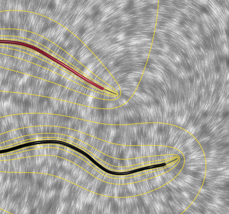 Even when a voltage source is not connected to a circuit, it still maintains an electrical potential between its two terminals. This illustration shows two wires attached to a 12V battery, and depicts the field lines (gray pattern) and the lines of equal potential (yellow). Charge does not flow on the surface of the wires because the field lines are perpendicular to the wires, nor inside the wires the field because the field is zero there. Select any two points in the space around or between the wires, and the potential difference between those two points is shown by the number of equipotential lines between them. The potential difference between the wires is 12V, and the potential difference between two points on the same wire is zero.